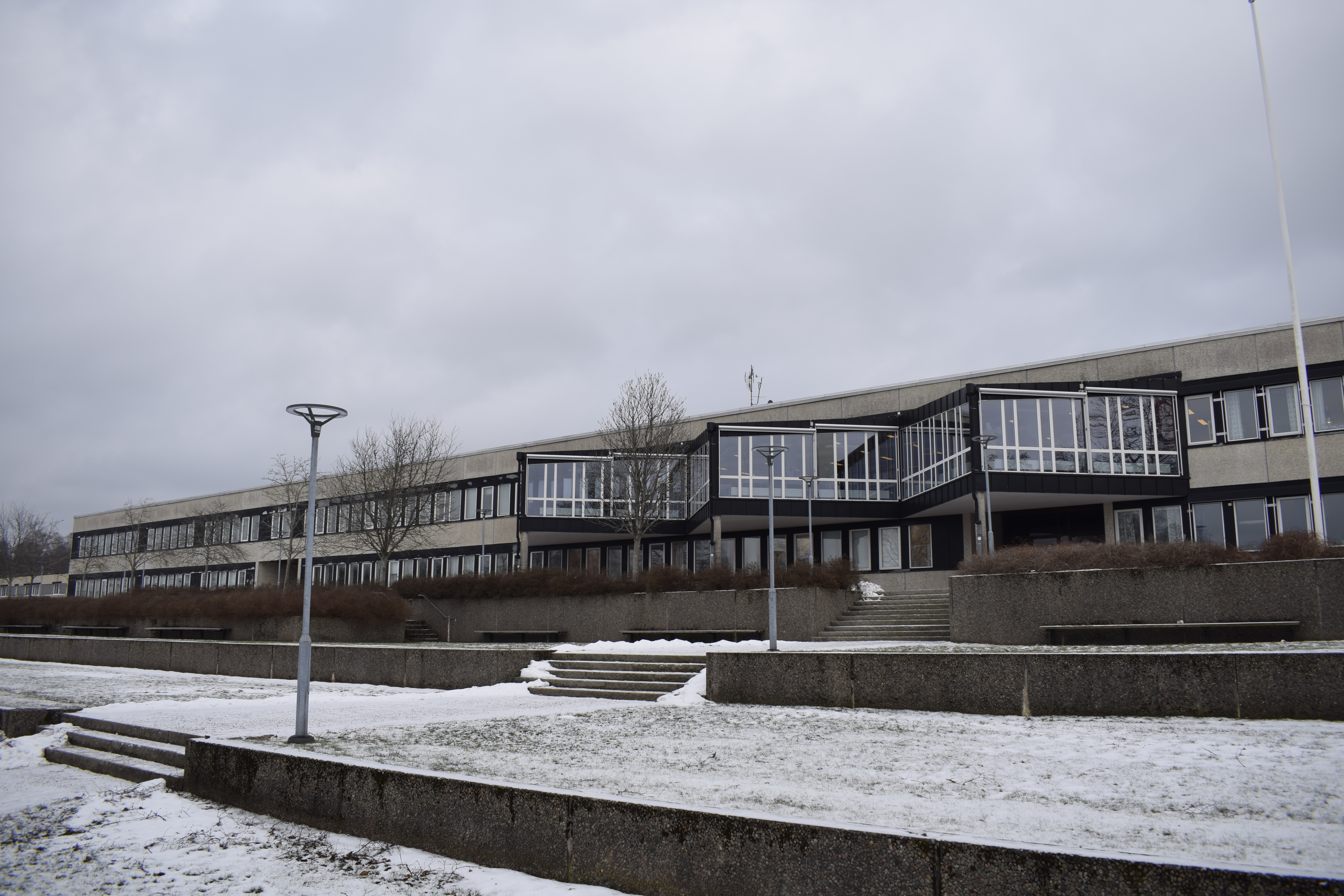 Upper secondary school Tingsholmsgymnasiet.